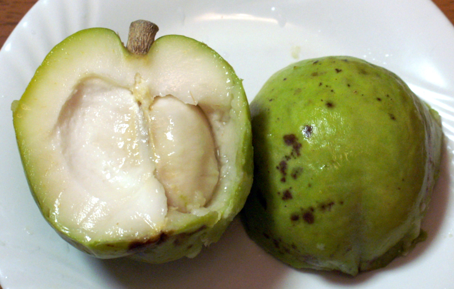 Casimiroa edulis, White sapote fruit cut in half